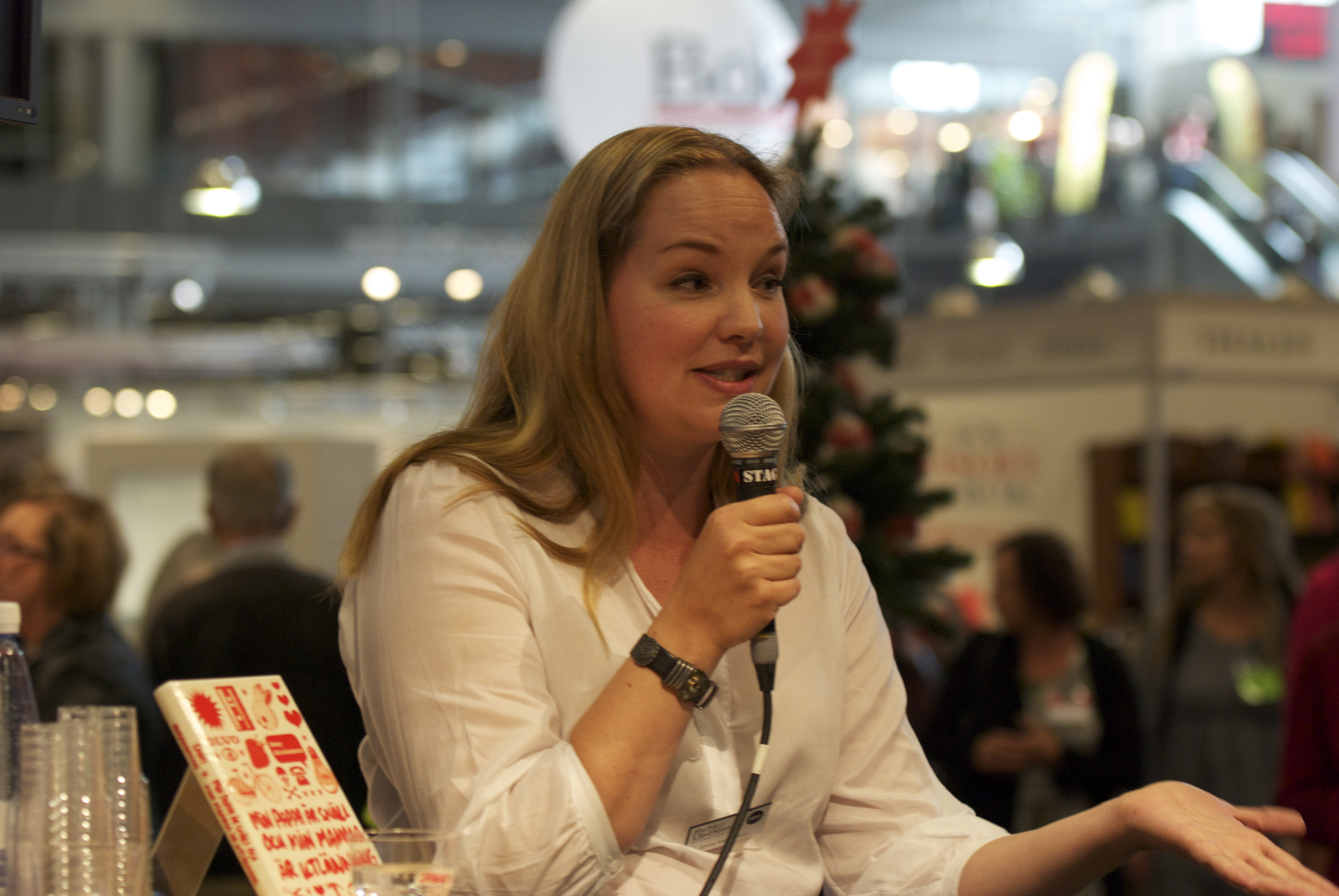 Emmy Abrahamson at Göteborg Book Fair 2011.